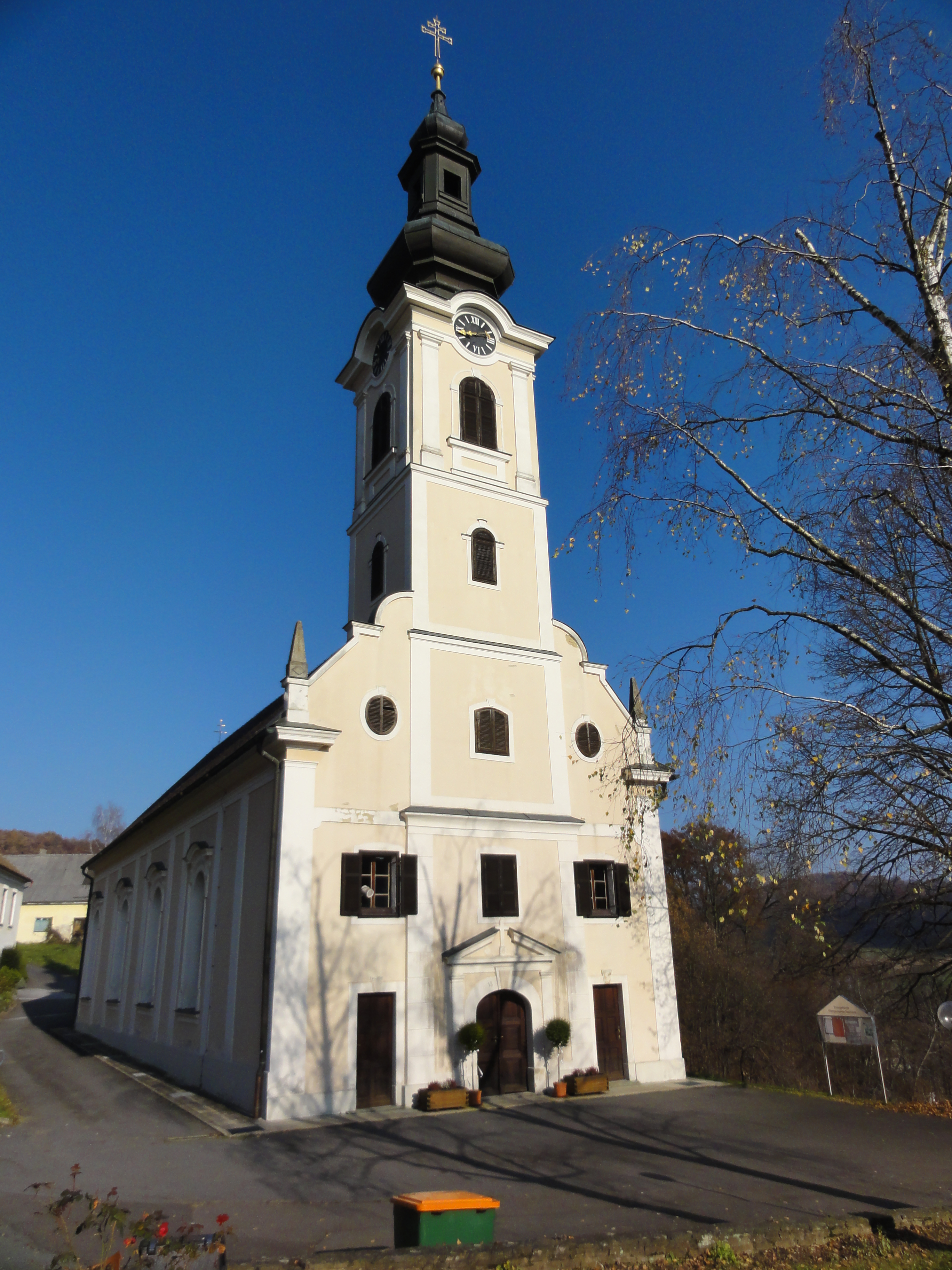 Protestant parish church